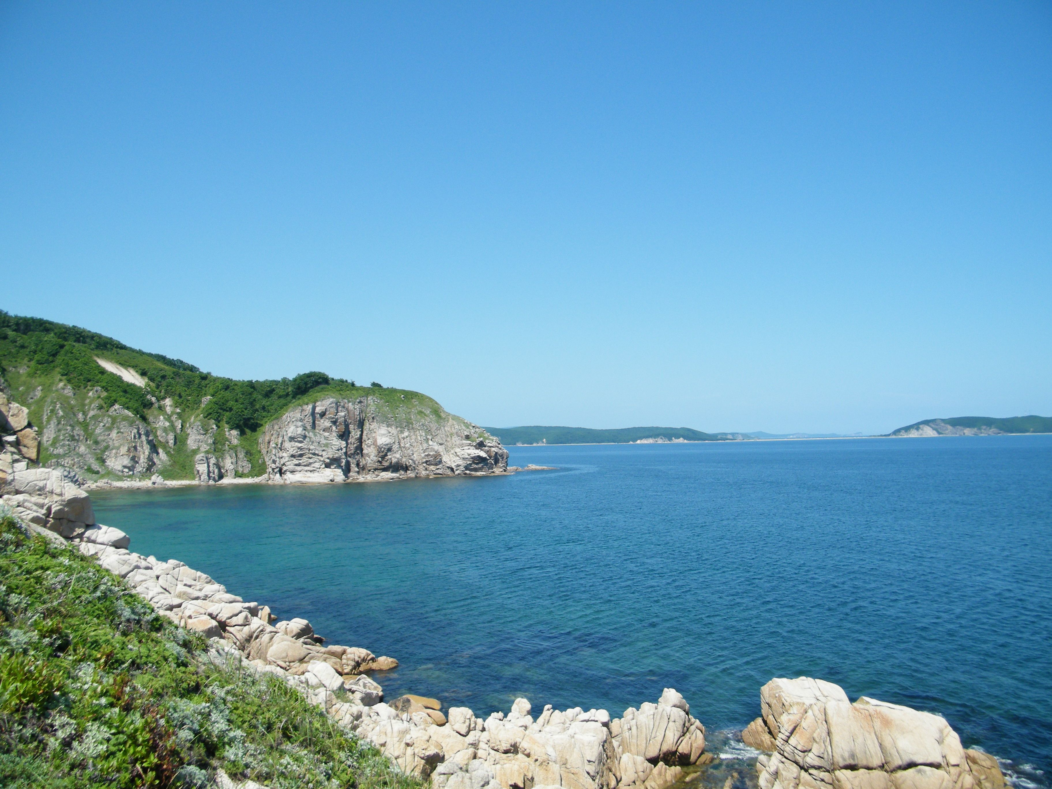 Залив Владимира, вид на полуостров Балюзек